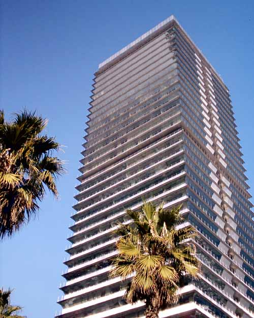 MAPFRE Tower in Barcelona (Spain)